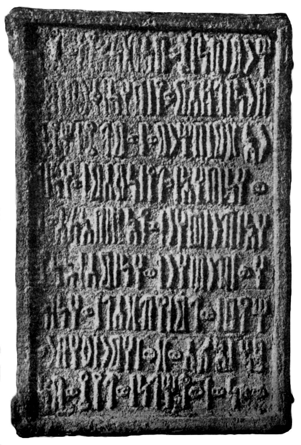 Language: Ancient South Arabian » Sabaic » Northern Middle Sabaic Archaeological context: Religious context: Temple of ḏ-S¹mwy bʿl Byn Concordanceː Gl 1052; CIH 523